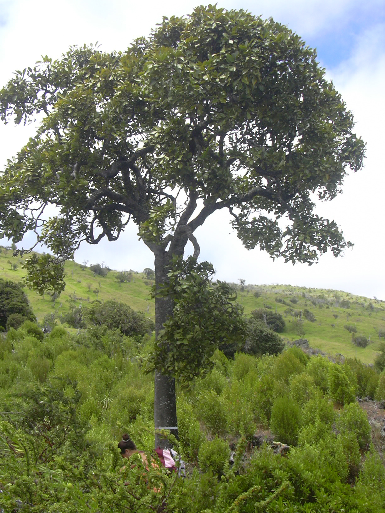 Tetraplasandra oahuensis (habit). Location: Maui, Auwahi